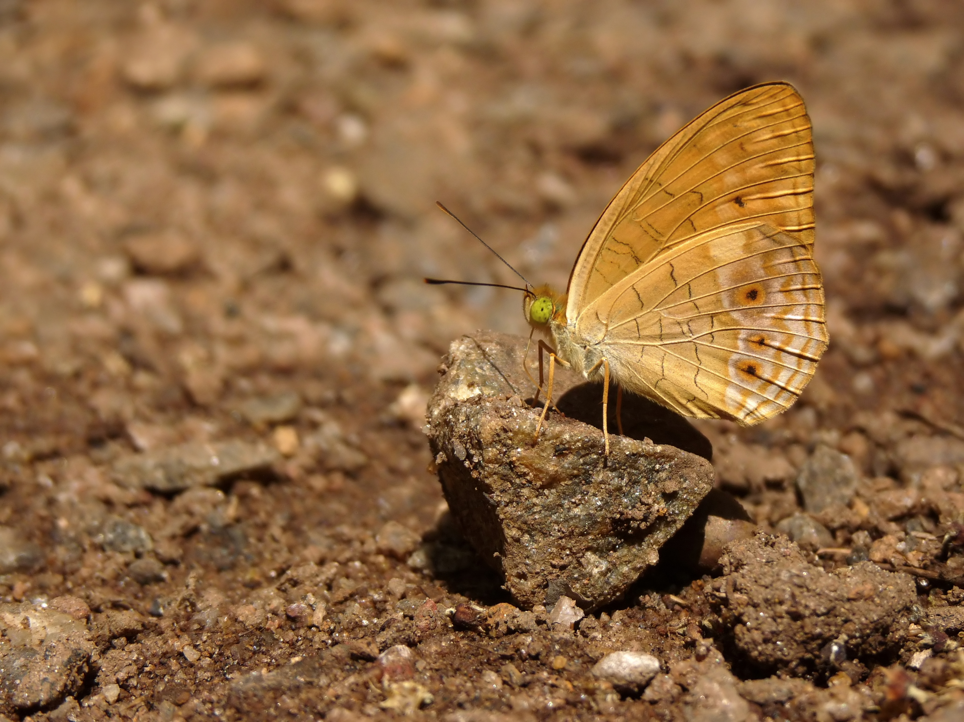 Phalanta alcippe, Small Leopard, is a butterfly of the Nymphalid or Brush-footed Butterfly family found in Asia.